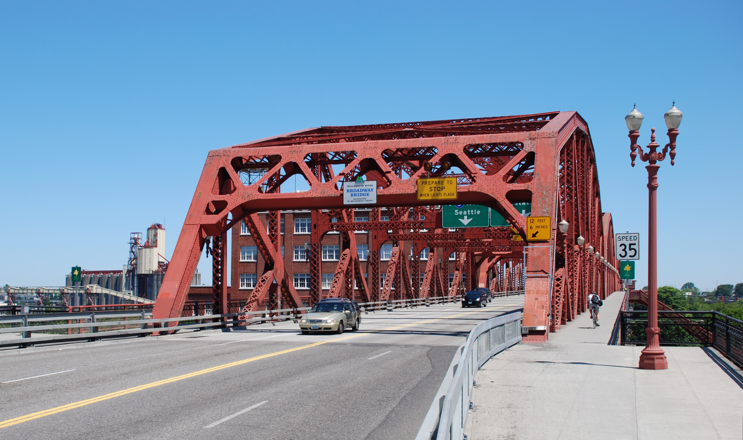 The west end of the Broadway Bridge, in Portland, Oregon, viewed from roadway level.